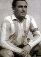 This is a photograph of Juan José Pizzuti, he retired from football in 1963.